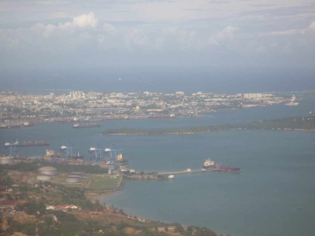 Aerial View of Mombasa